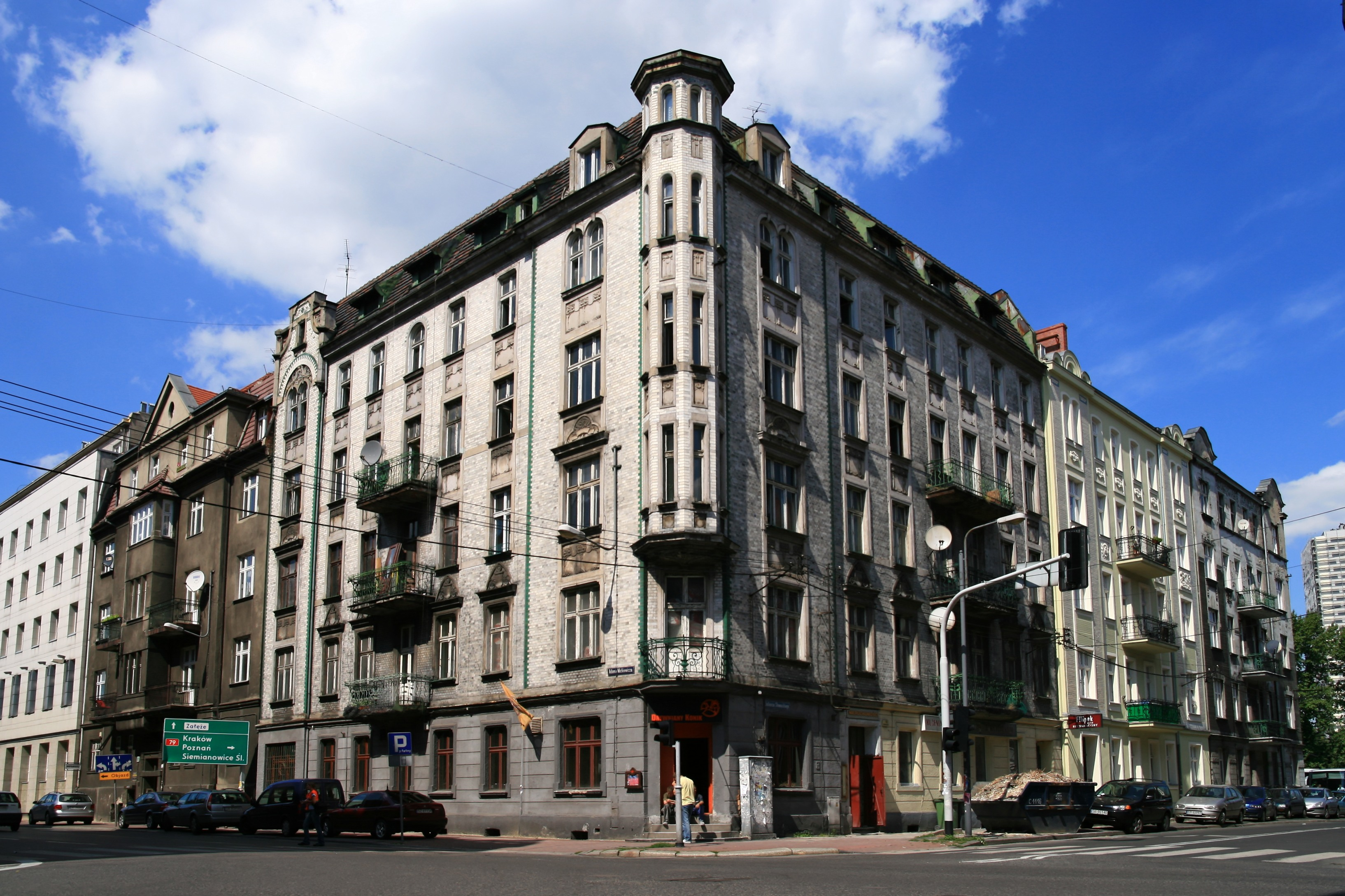 Tenement houses on the corner of Słowackiego Street and Mickiewicza Street in Katowice.